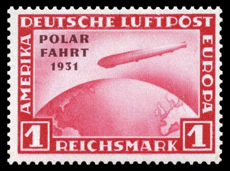 flight to the north pole of the airship LZ 127 “Graf Zeppelin” Ausgabepreis: 1 Reichsmark First Day of Issue / Erstausgabetag: 10. Juli 1931 Michel-Katalog-Nr: 456 (Deutsches Reich)